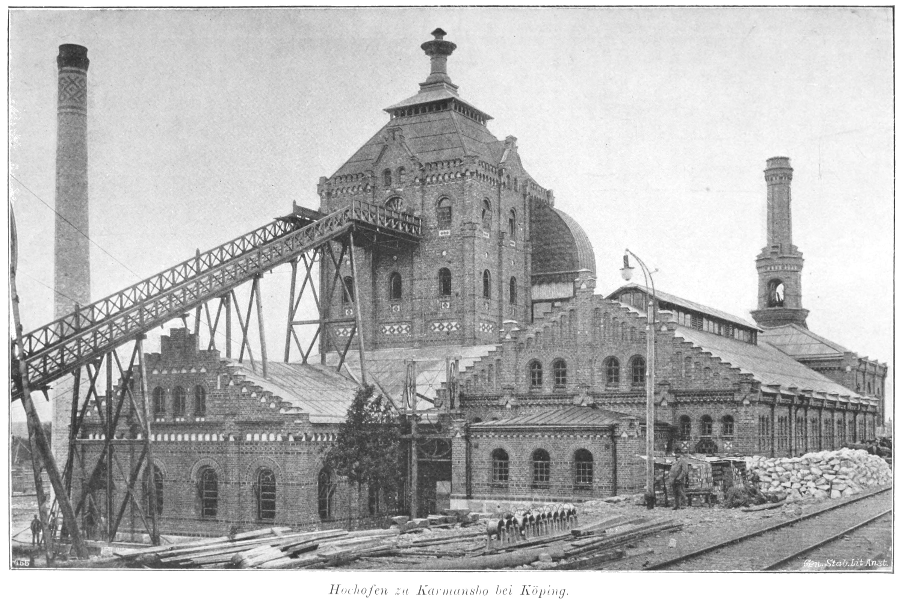 Blast furnace Karmansbo, in Köping, Sweden. It was in operation 1897 – 1940.